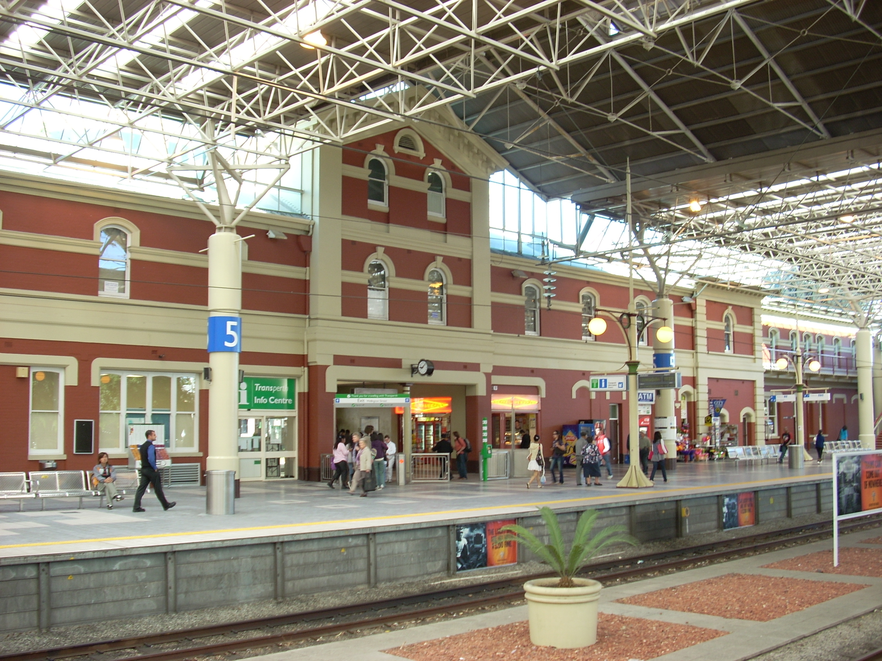 Internal view of the Perth railway station taken from platform 6 looking towards the original entrance